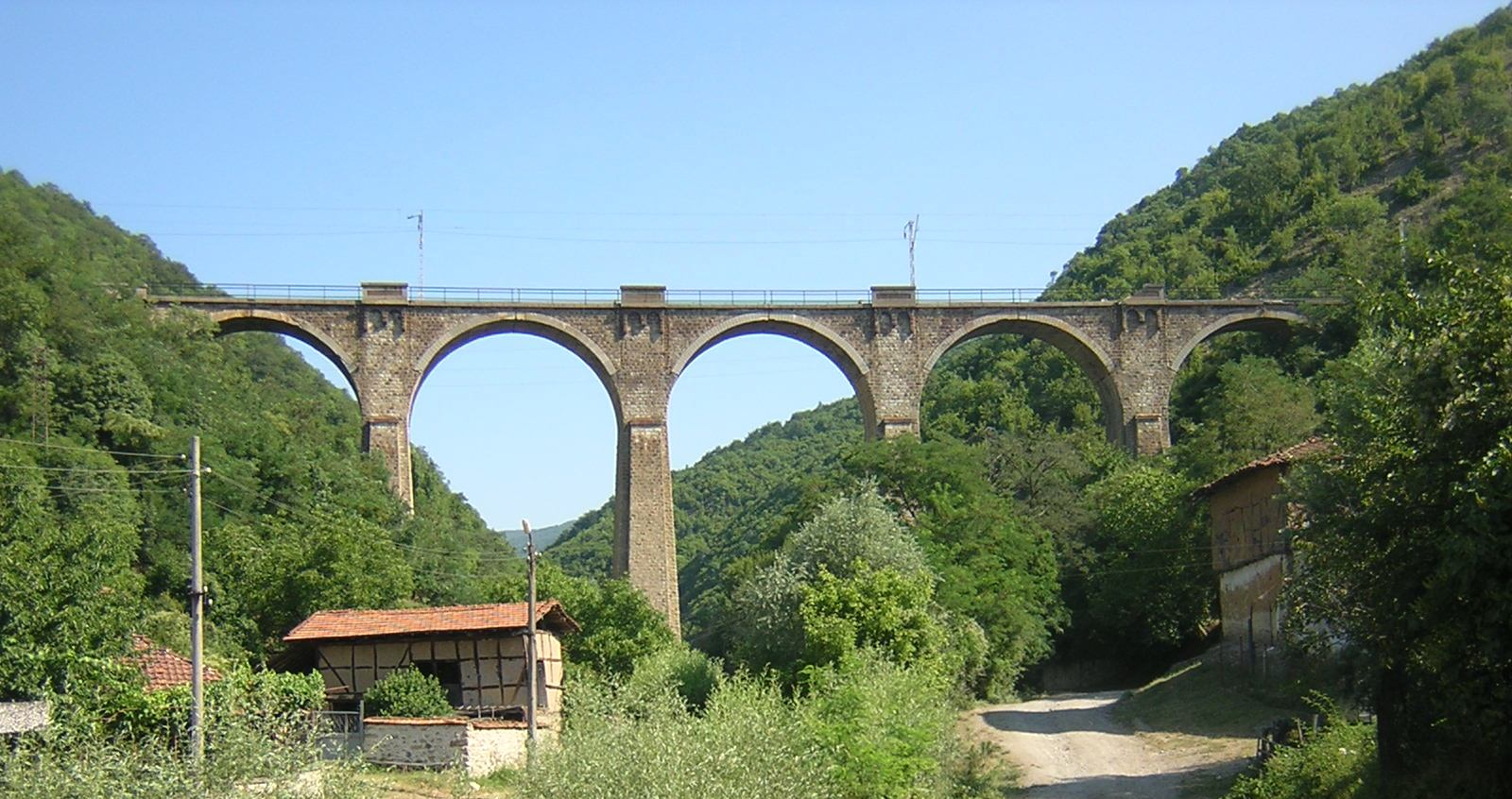 Railway bridge at Bunovo in the Sofia-Karlovo line (Bulgaria). To the left is the Galabets tunnel.